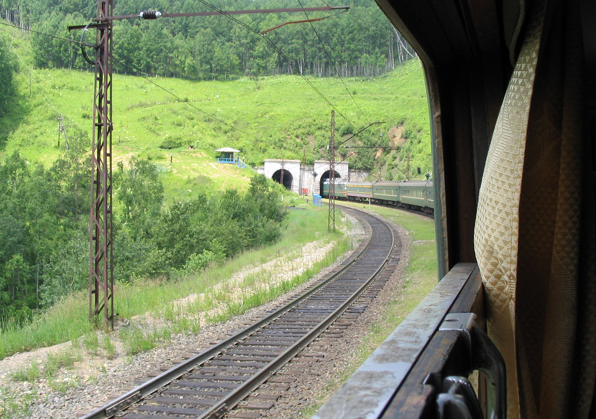 Picture of a trans-Siberian railway train entering a tunnel on the circum-Baikal stretch of line just west of Kultuk. Taken by me 7/06, released into public domain